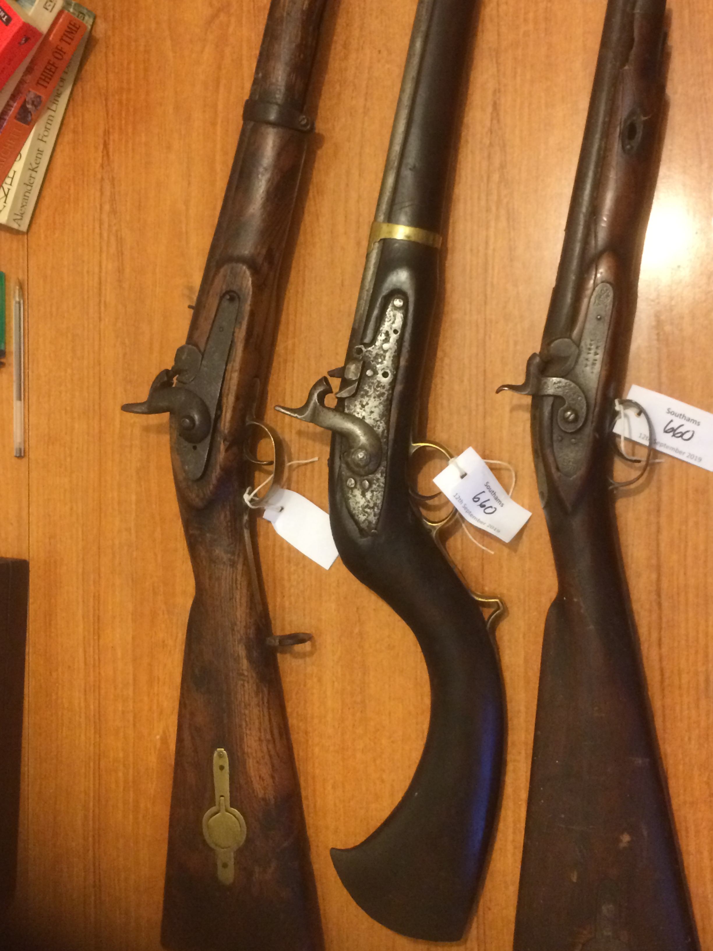 Two crude Khyber pass guns of the mid 19th century and an indigenous weapon.The Russian musket, derived from the French Charleville, retains traces of black paint on the stock and has been fitted with a nonstandard container for percussion caps. The jezail, originally configured with a miquelet lock, is fitted with a trigger guard, hammer and nipple scavenged from a Brunswick rifle. Location The geocoded location of the location of this image has been withheld for privacy or other reasons. Please do not add coordinates even if you can identify them.